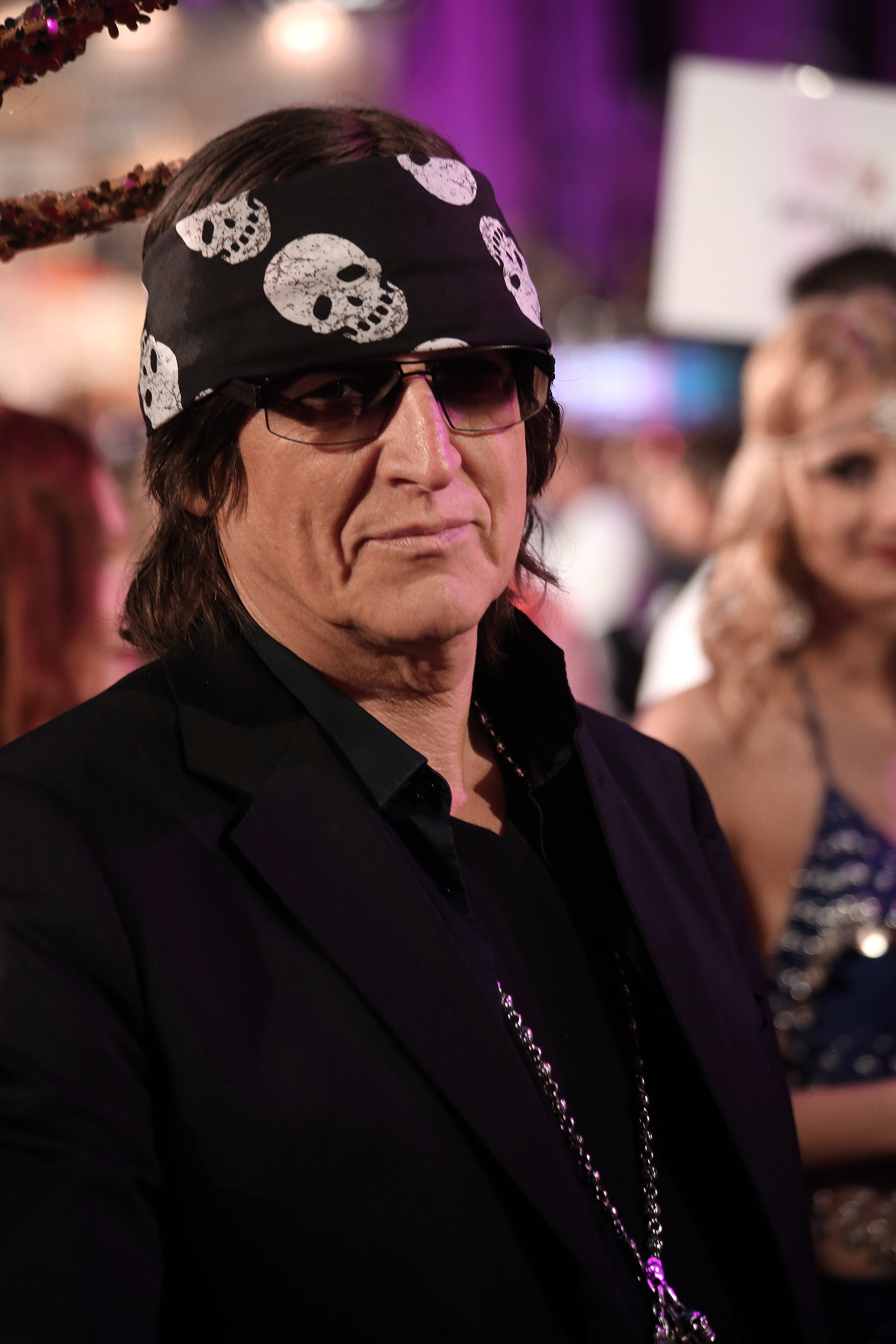 Gottfried Helnwein on the 'magenta carpet' at Life Ball 2013 at the square in front of the city hall of Vienna, Vienna, Austria.